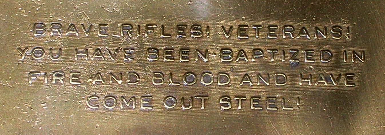 Photo I took of the back of a 3d ACR belt buckle. (Atfyfe| 01:54, 19 May 2006 (UTC))